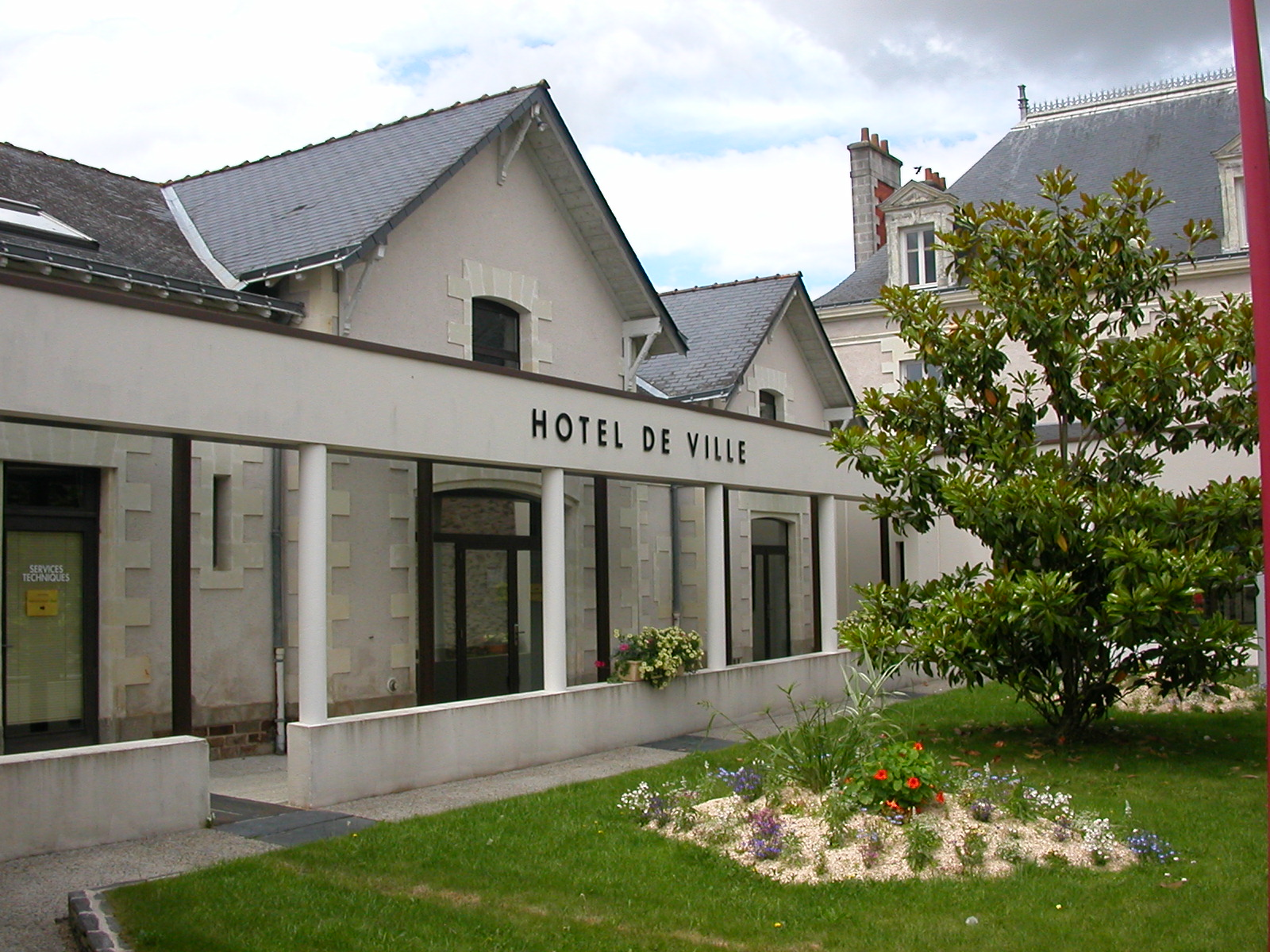 Town hall of Nort-sur-Erdre